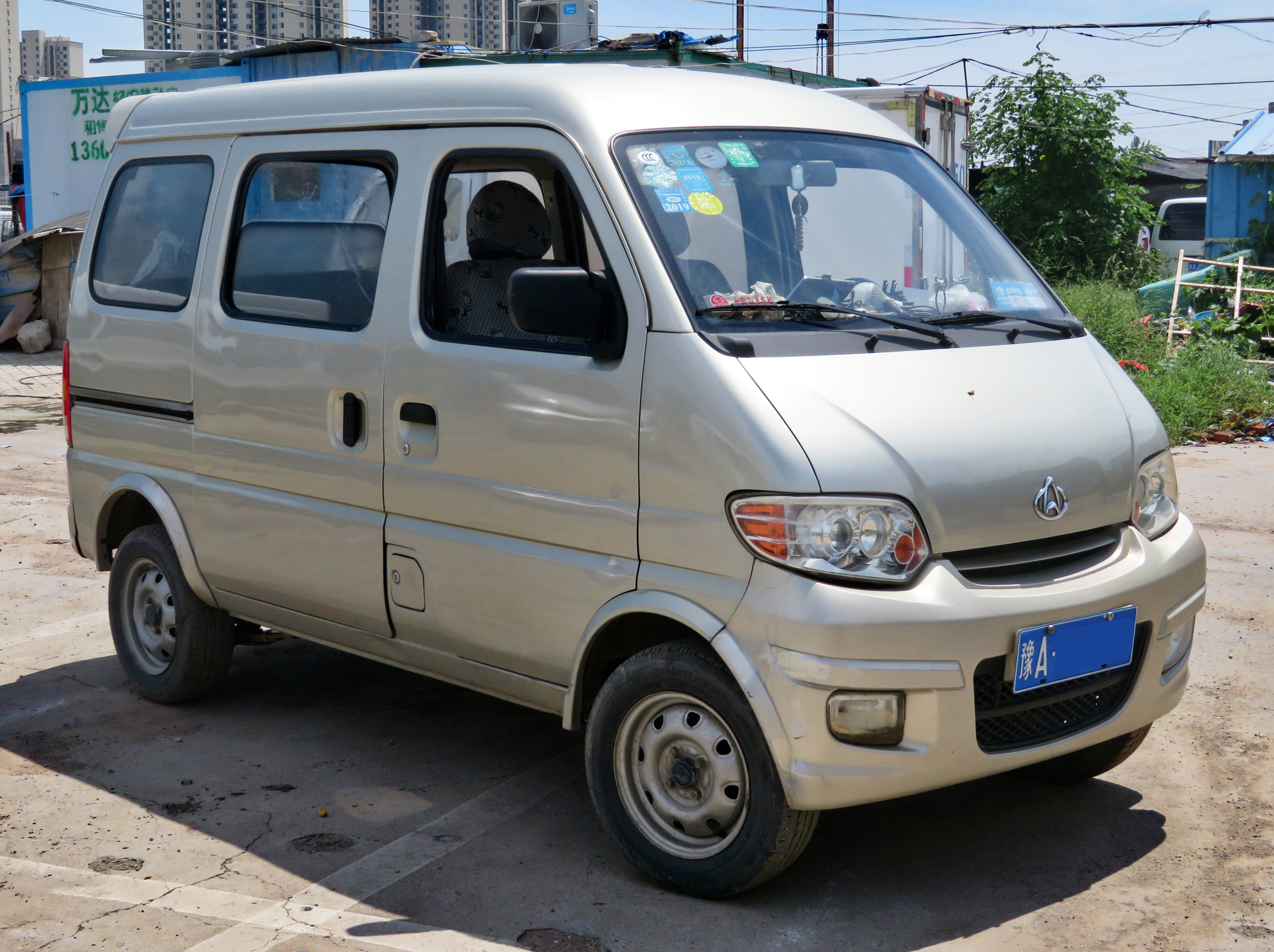 A 2012 Chang'an Star (Zhixing) photographed at a used car market in Zhengzhou, Henan province, China